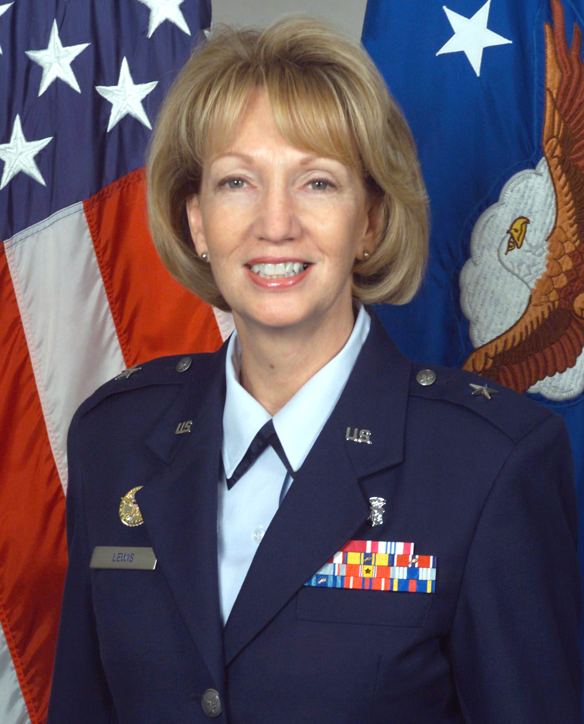 Official photo of Brigadier General Patricia C. Lewis, USAF Assistant Surgeon General, Medical Plans and Programs, and Chief of the Medical Service Corps Source: "Air Force Link," Official Website of the United States Air Force Author: unknown URL